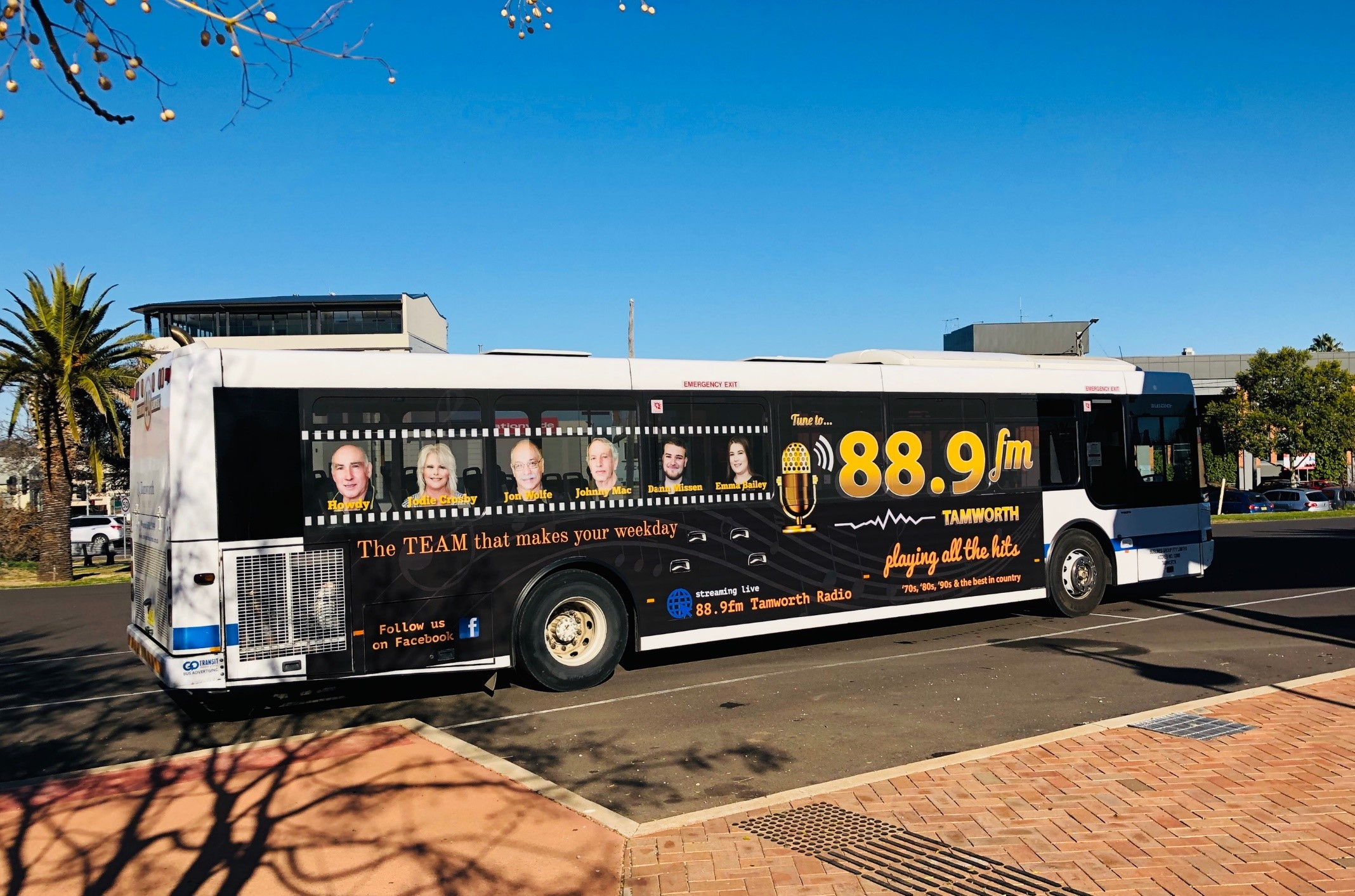 88.9fm Tamworth's weekday on air team on the bus going around town